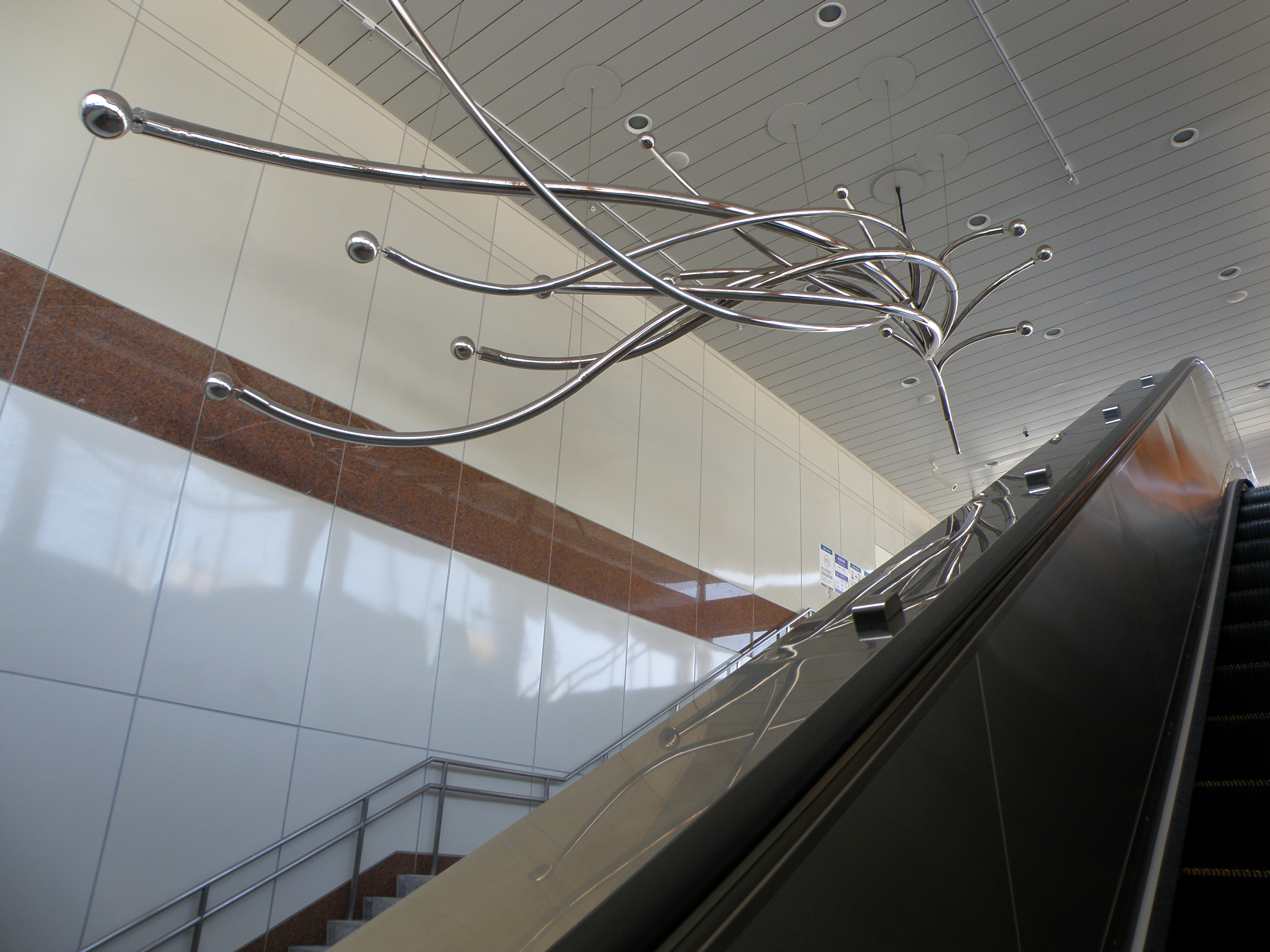 Phoenix Art in Fongshan West Station, Kaohsiung Mass Rapid Transit.